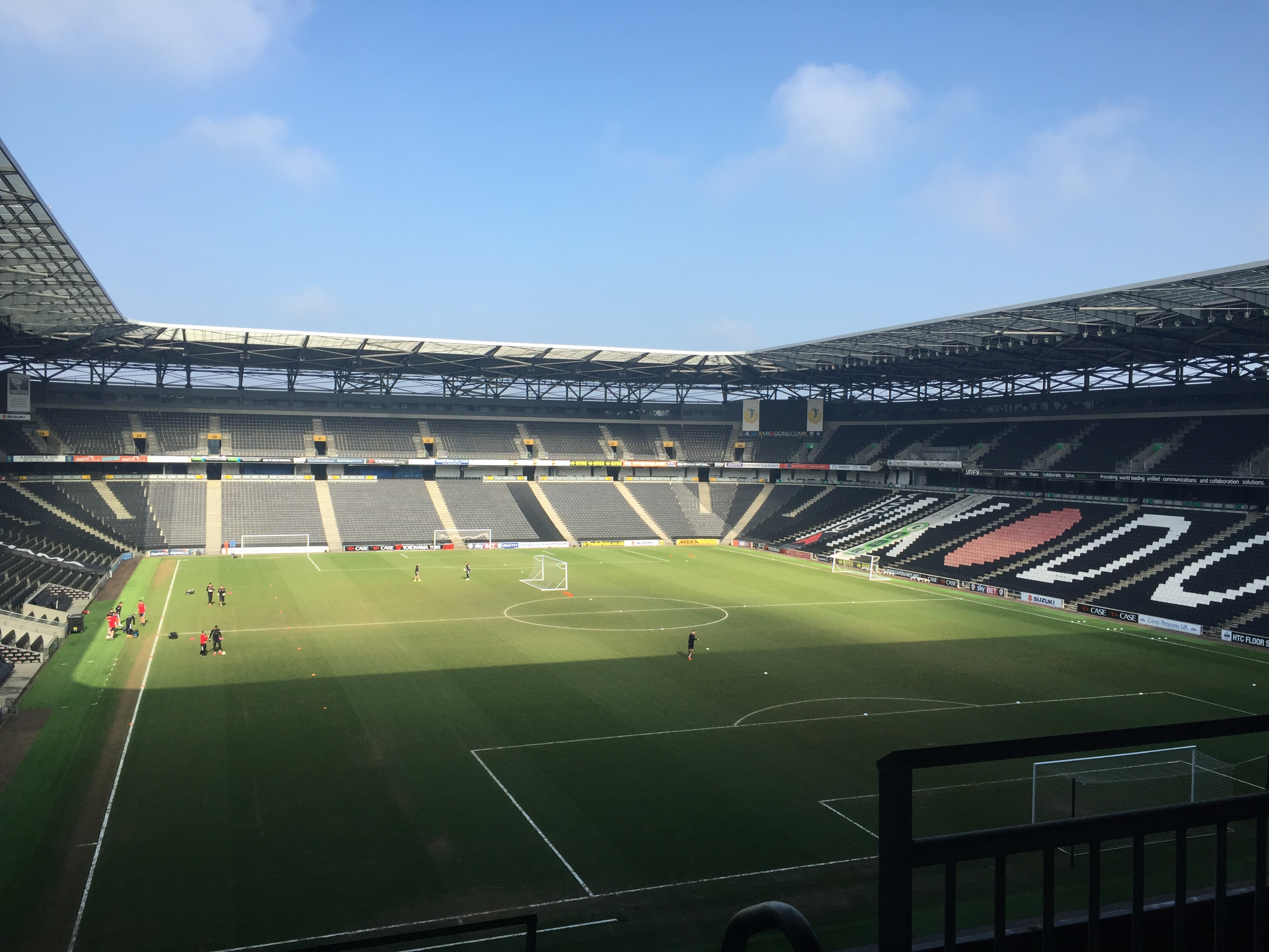 View of the North and East Stands, taken March 2016